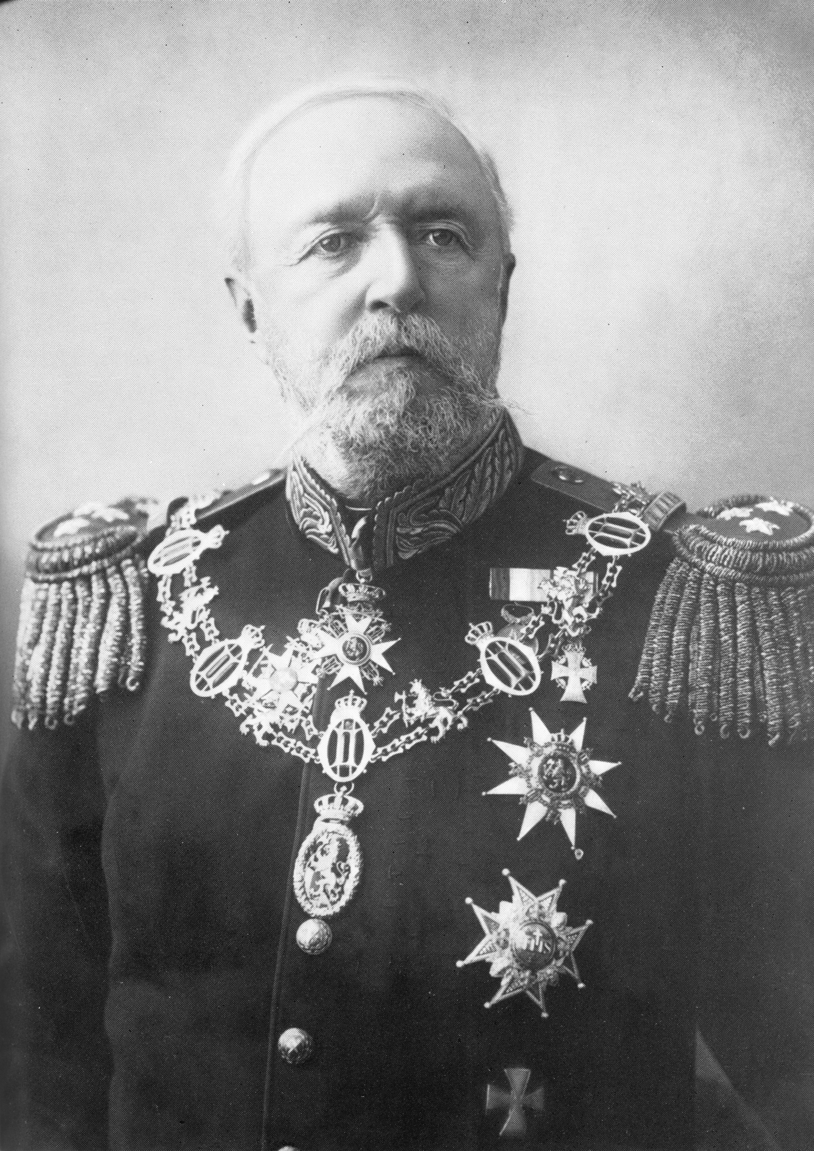 portrait of King Oscar II of Norway who abdicated in 1905 and died in 1907